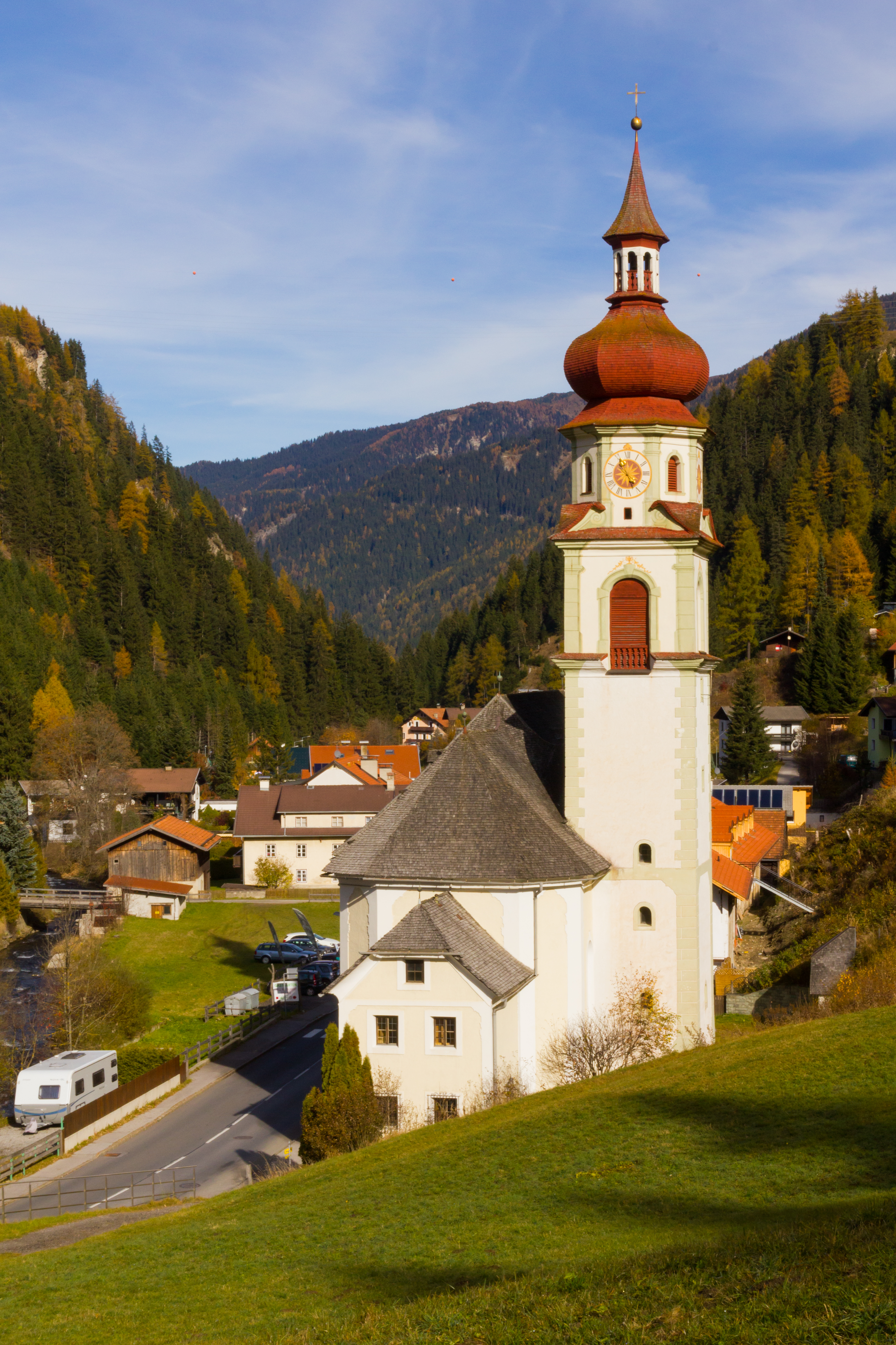 The catholic Church Maria Heimsuchung in Gries am Brenner, seen from the way from the station.